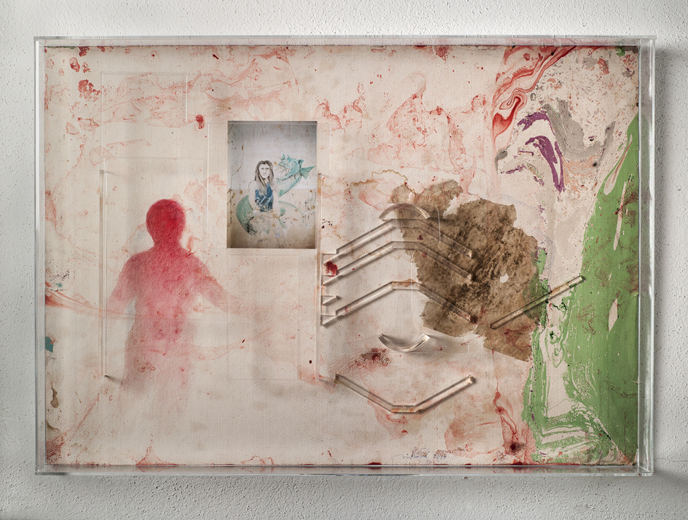 Jindra Viková, Subtle Moments, 2014, assemblage 43 x 60 cm